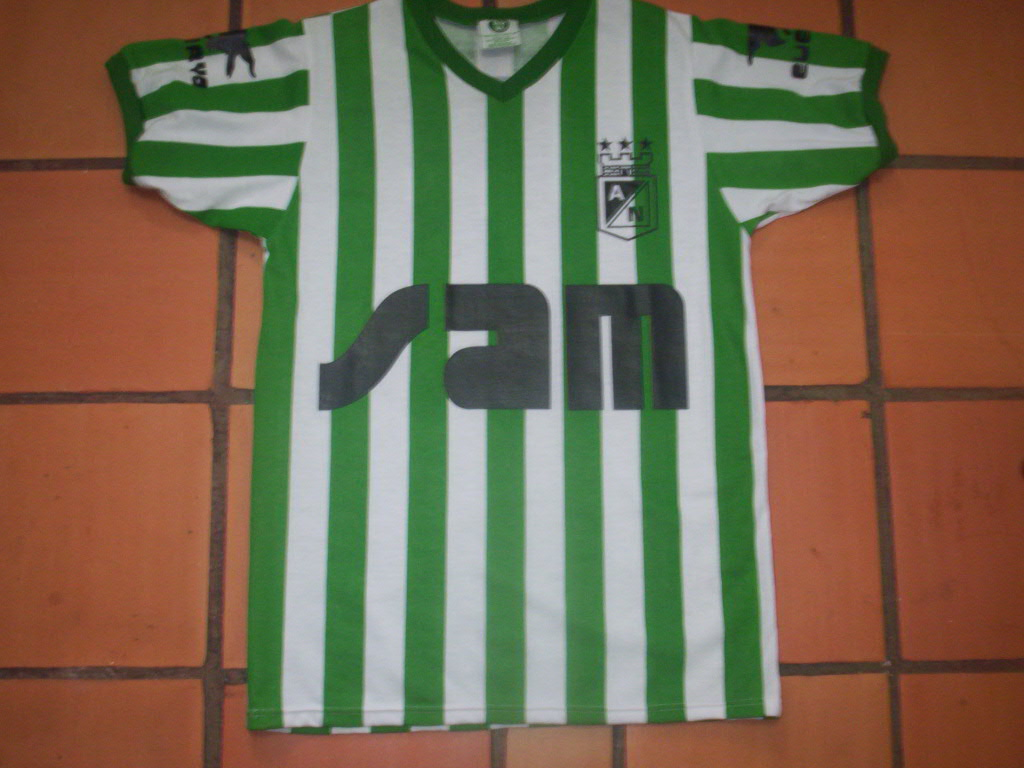 Atlético Nacional 1981. Home. Replica